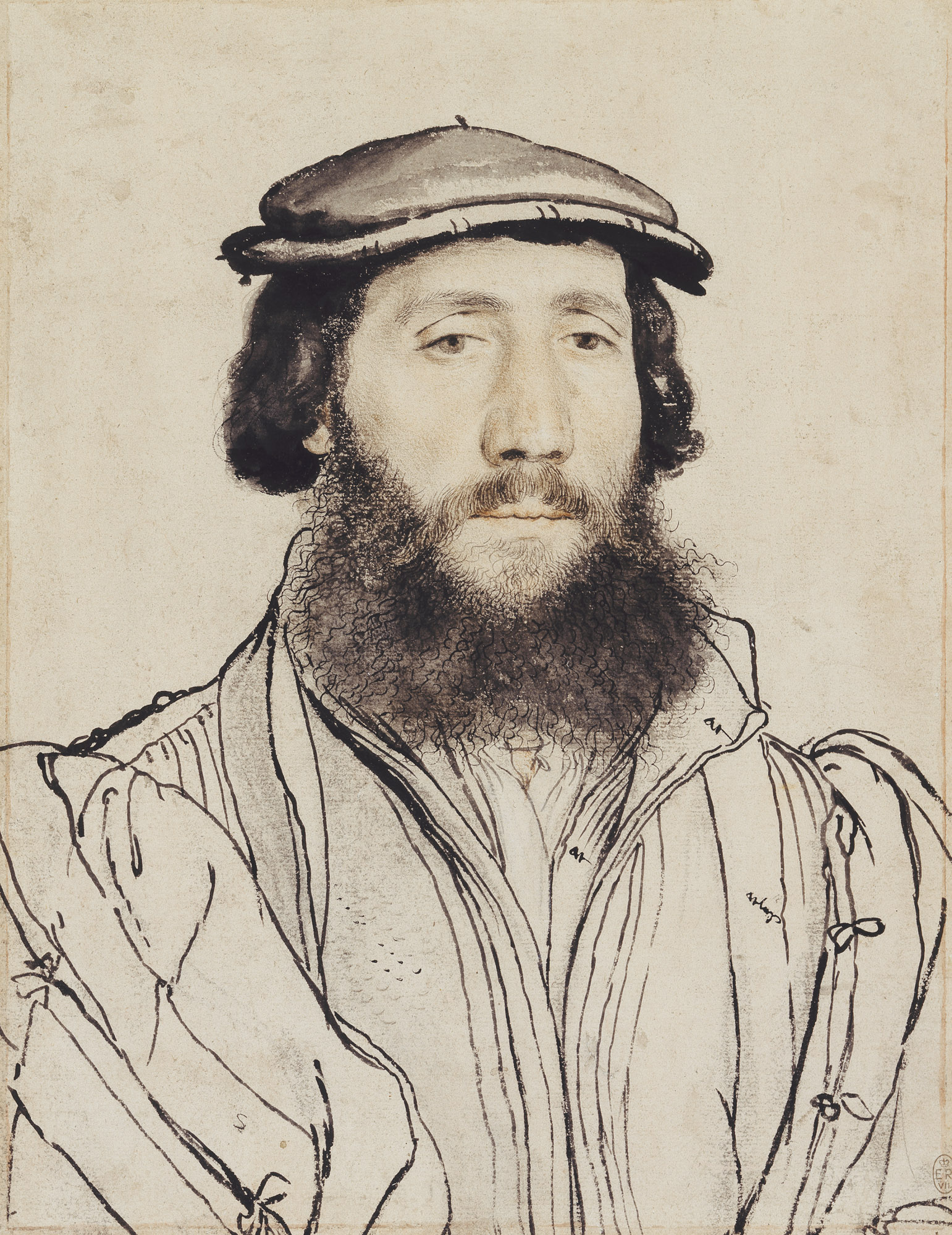 Portrait of an Unidentified Man with a Beard. Black and coloured chalks and pen and ink and brush on pink-primed paper, 27.5 × 21.1 cm, Royal Collection, Windsor Castle. This drawing, exceptionally well preserved, includes fine use of wash, especially in the hat, and of chalk modelling, especially round the eyes. Holbein demonstrates mastery and variety in the use of both pen and brush. Wenceslas Hollar's etching of 1647 (see "Other versions" below) indicates that the drawing was a study for a roundel or miniature. Unlike many of Holbein's drawings in the Royal Collection, this one has not been reworked or retouched by other hands.